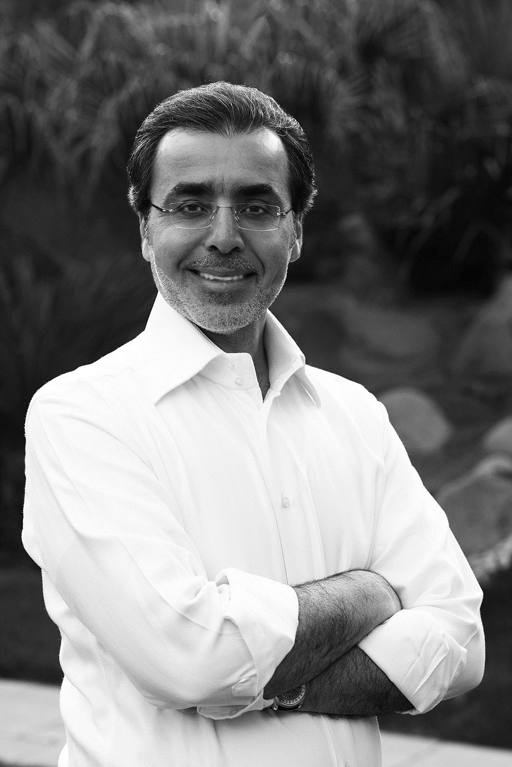 Headshot of His Excellency Amr Al-Dabbagh in BW owned by him, on his personal website ( and on Wikipedia.